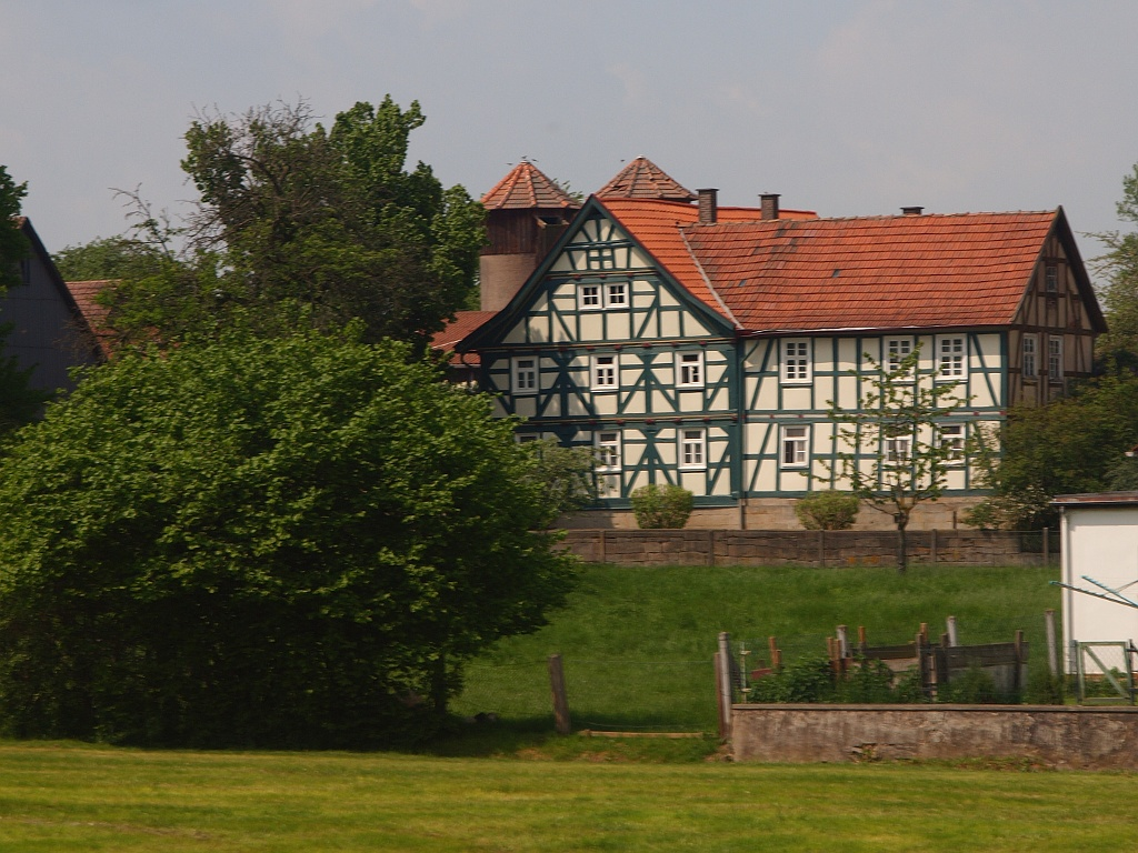 A half-timbered farm house in Schenklengsfeld-Landershausen.